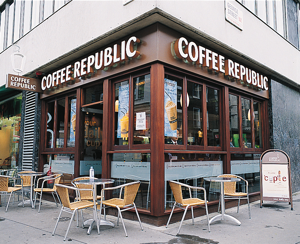 Coffee Republic shop 1 George Street, London W1U 3QF. in 2000. Coffee Republic has now moved out of this location and the premises is currently (2012) occupied by an 'EAT' sandwich bar